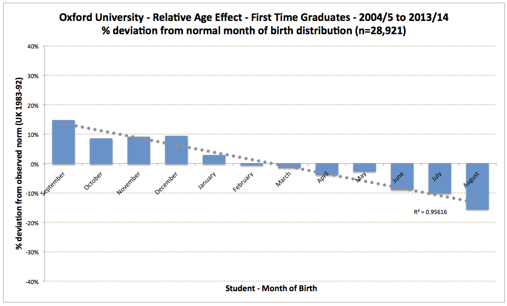 Oxford University RAE profile 2004/13